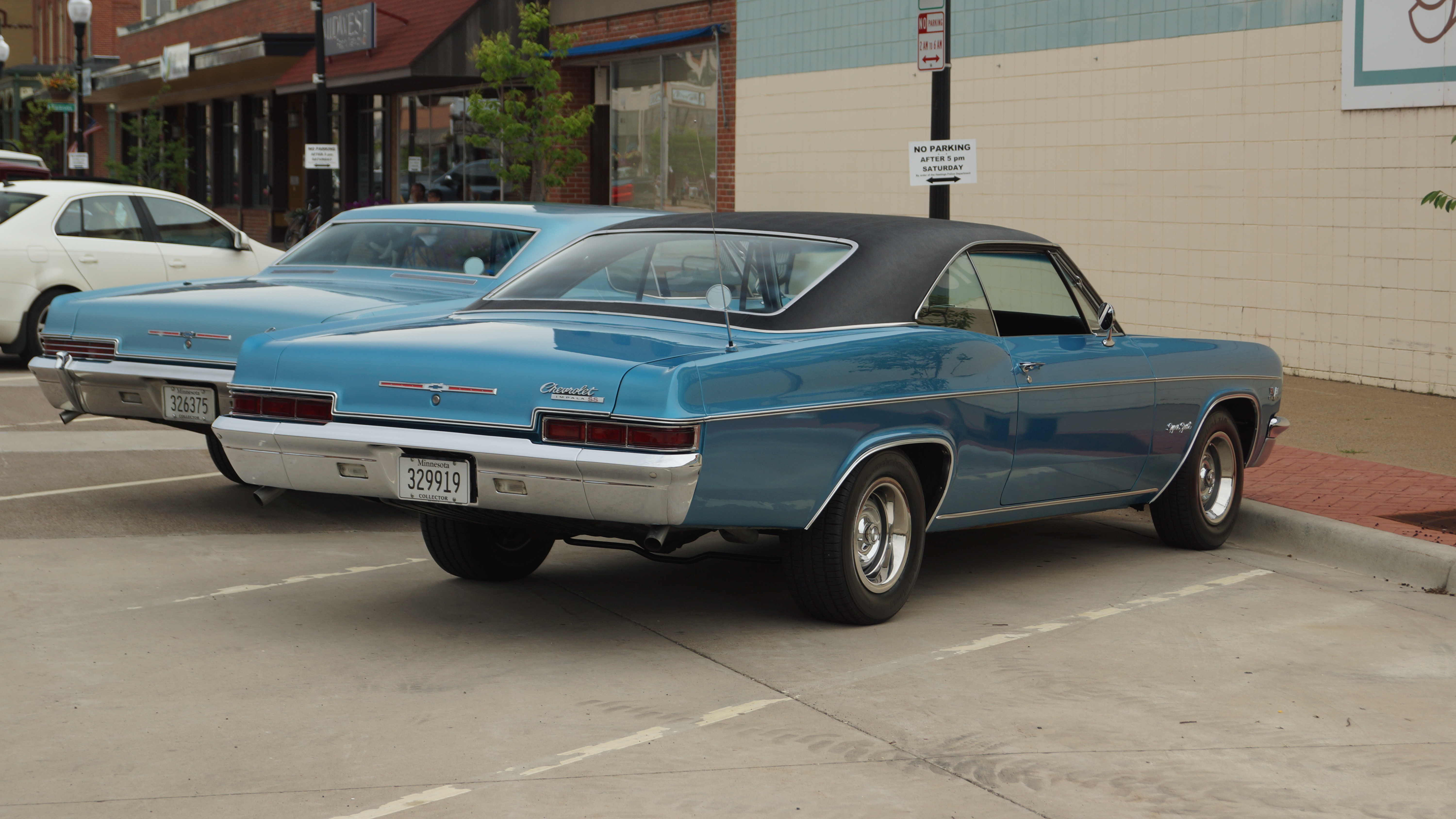 HISTORIC DOWNTOWN HASTINGS CRUISE-IN & CLASSIC CAR SHOW Hastings, Minnesota June 30, 2018 Click here for previous Hastings Cruise Night pictures Click here for more car pictures at my Flickr site. Or here for my Car Crazy Tumblr site. Or on Twitter @DVS1mn.